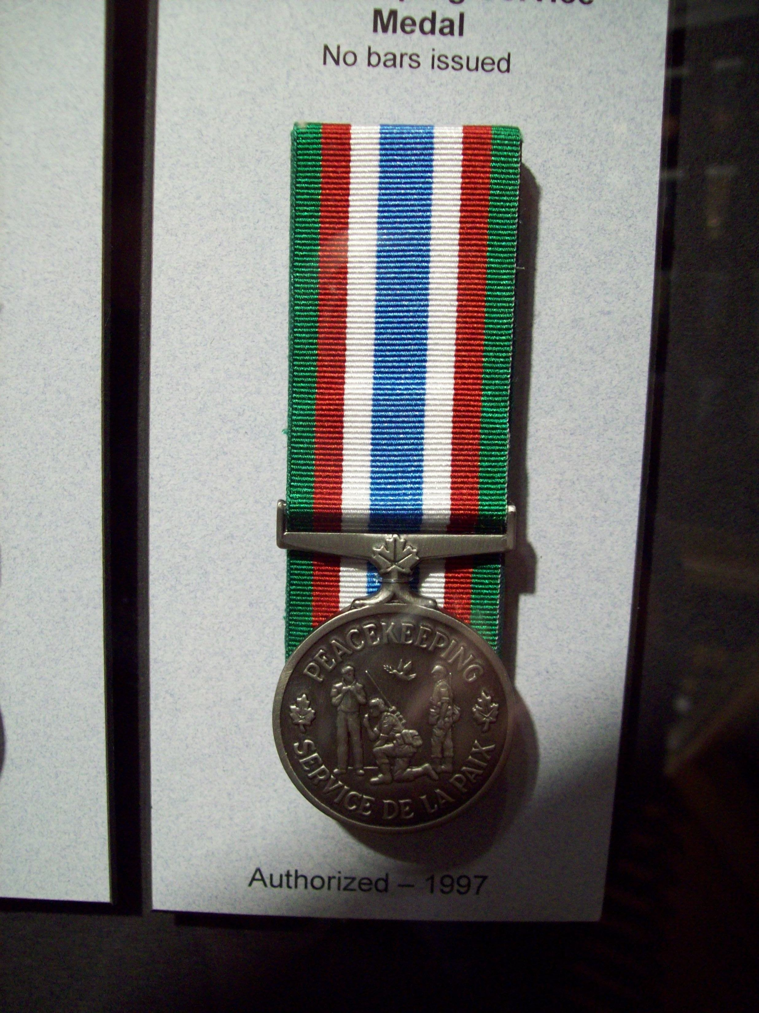 The Canadian Peacekeeping Service Medal on display at the Royal Canadian Regiment Museum.